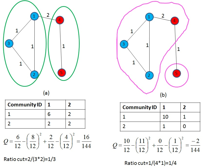 A comparison between modularity and ratio-cut as partitioning metrics.